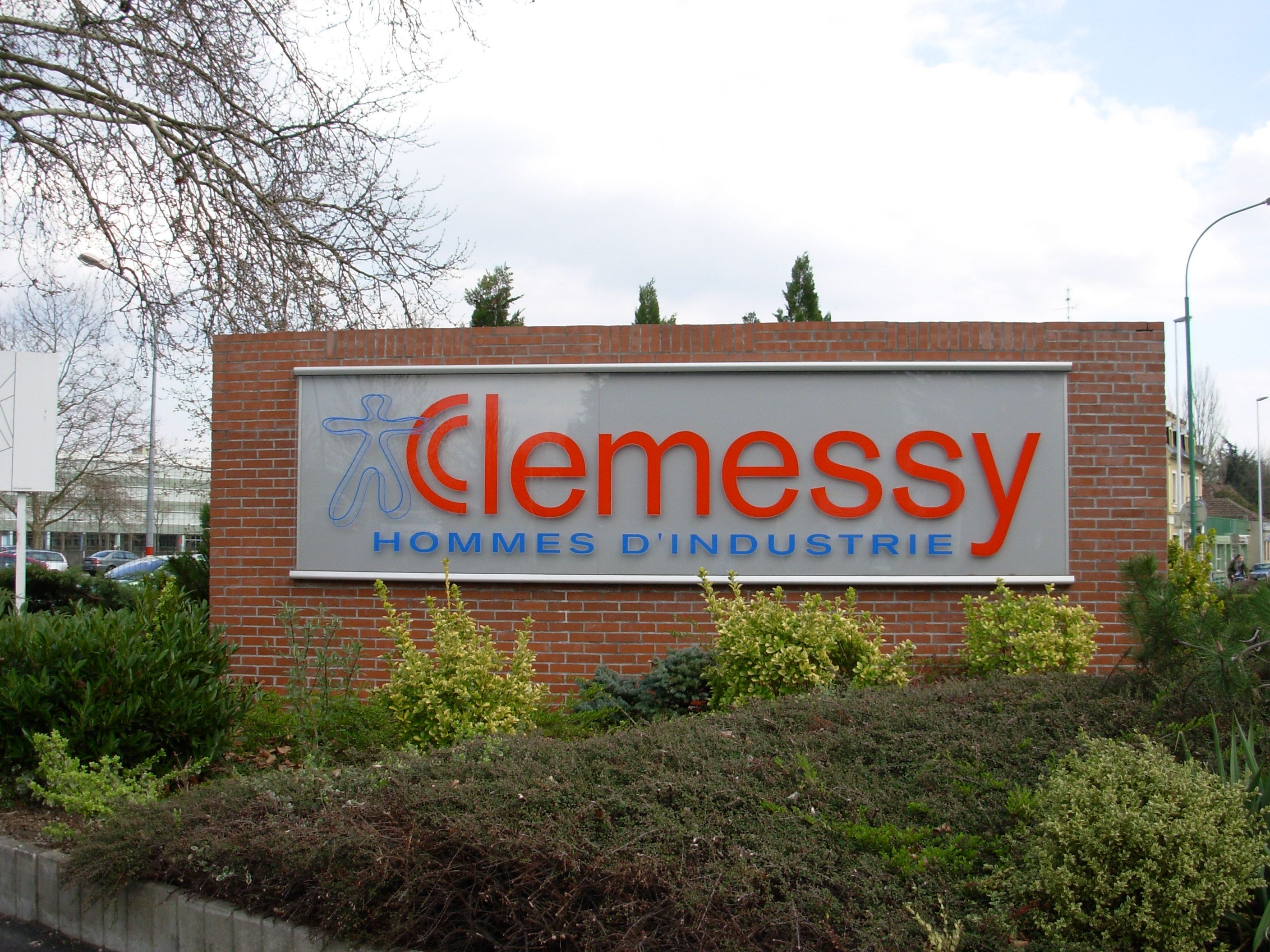 photography from the logo of Clemessy, a french company